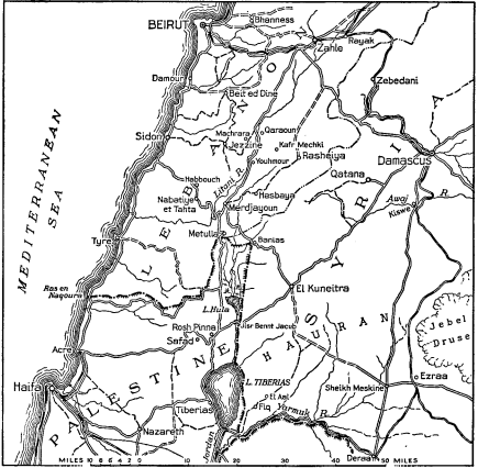 a map showing Syria and Lebanon in 1941